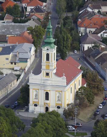 Budapest, district 23 Hősők tere, Hungary, aerial photography